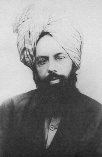 Mirza Ghulam Ahmad (13 February 1835 – 26 May 1908), a religious figure from India, and the founder of the Ahmadiyya movement.